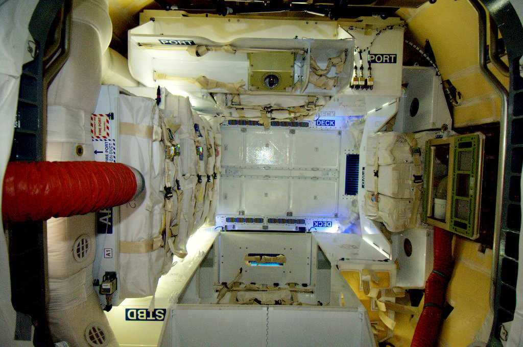 This image of the inside of the Dragon module was taken by European Space Agency astronaut Andre Kuipers. The SpaceX Falcon 9 and its Dragon spacecraft launched on Tuesday, May 22, at 3:44 a.m. EDT. This mission is a demonstration flight by Space Exploration Technologies, or SpaceX, as part of its contract with NASA to have private companies launch cargo safely to the International Space Station.